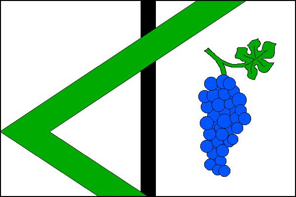 Municipal flag of Sobůlky village, Hodonín District, Czech Republic.